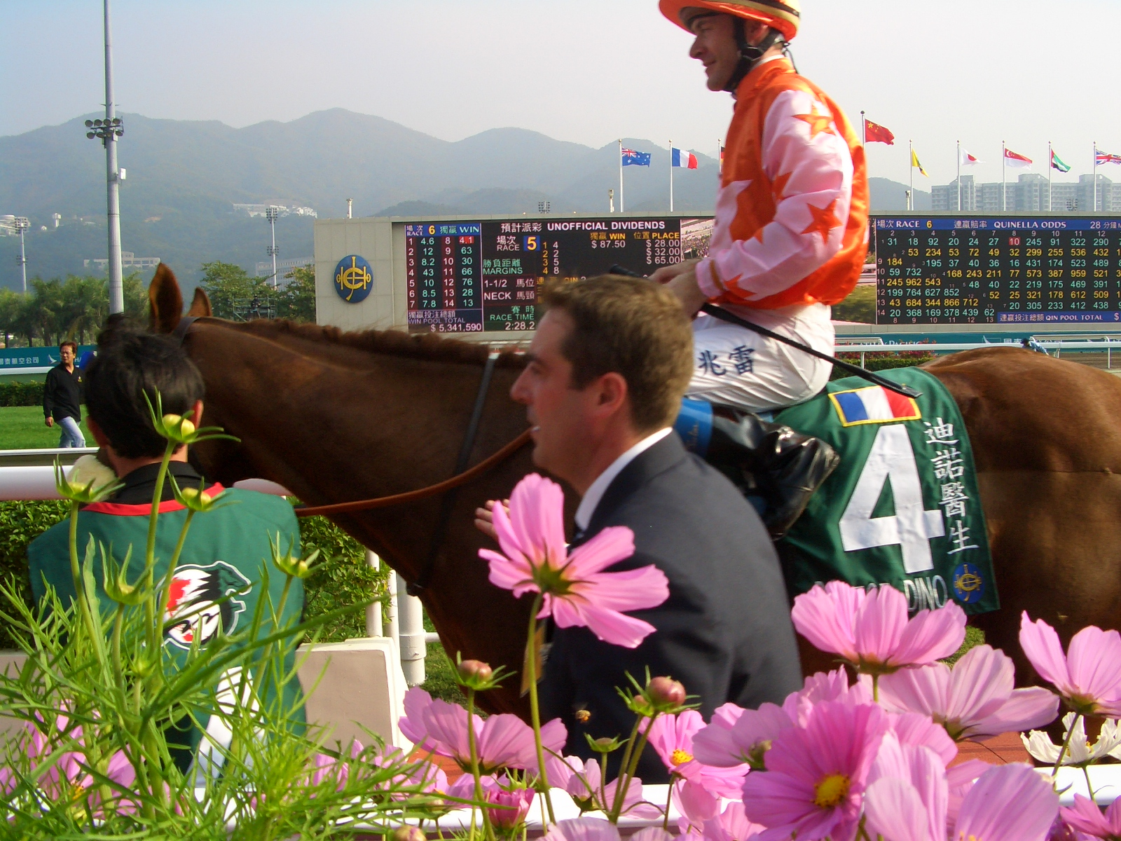 Doctor Dino ,winner of 2007 Hong Kong Vase